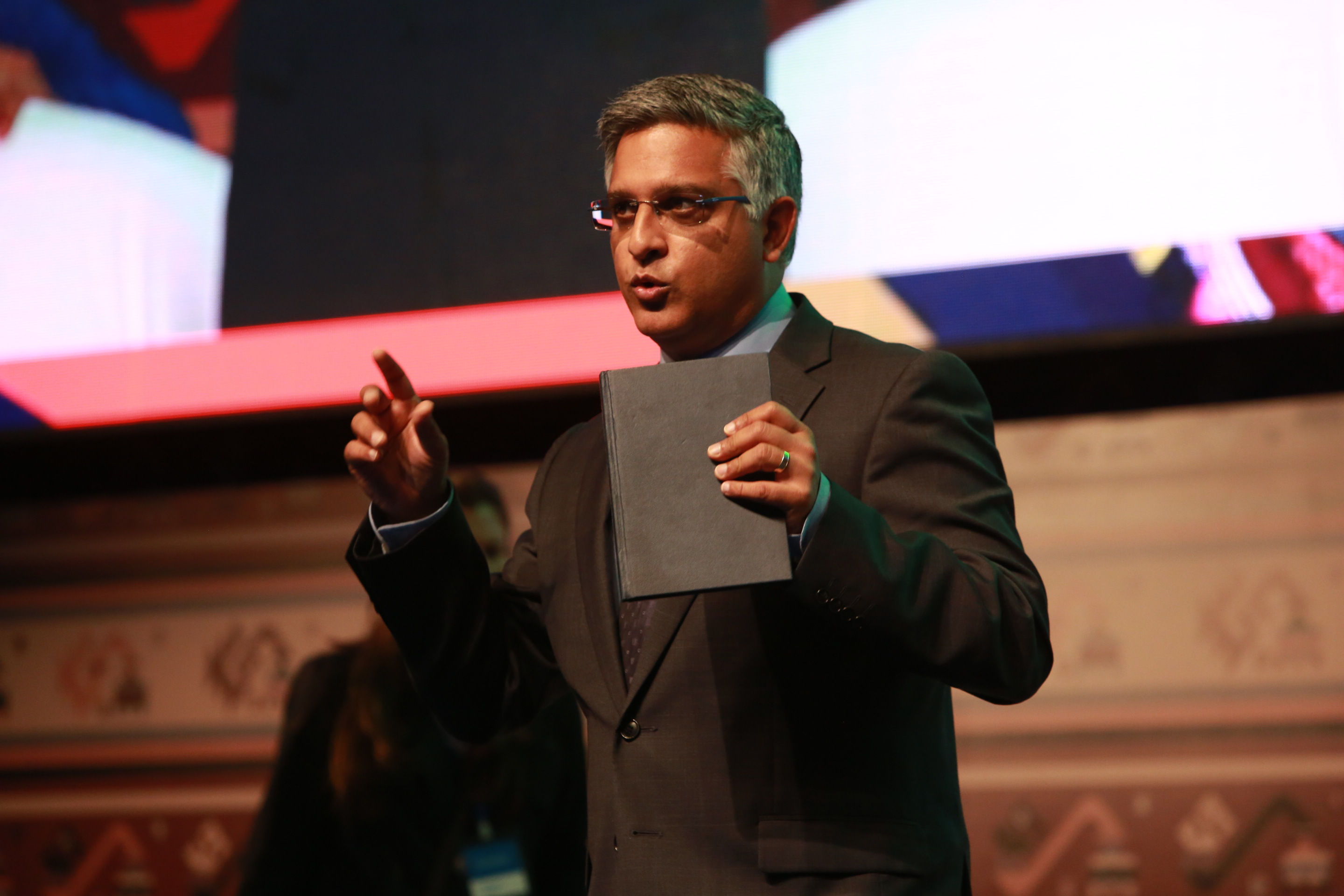 WTTC Americas Summit - Opening Ceremony & Session 1, Adnan Nawaz, BBC World News World Travel & Tourism Council Flickr images